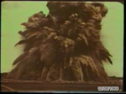 Nevada Test Site - Area 20. Time Sequence Photographs following the Bowline Schooner detonation. Photograph D: Ejecta and base surge cloud.